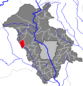 This map shows the area of the Gemeinde (municipality) Stiwoll in the Bezirk (district) Graz-Umgebung, Styria, Austria.